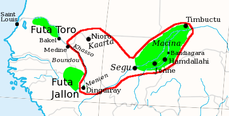 General outline (red) of El-Hadj Umar Tall's jihad state at the time of his death (1864), at the empire's greatest extent. Covering much of modern Mali, as well as parts of Guinea and Mauritania